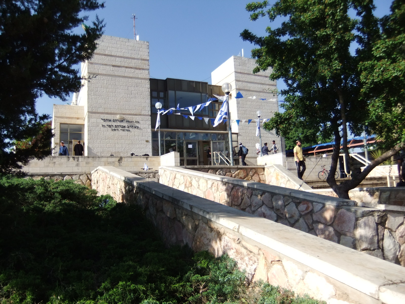 Avraham Ohavi Synagouge in Beit El